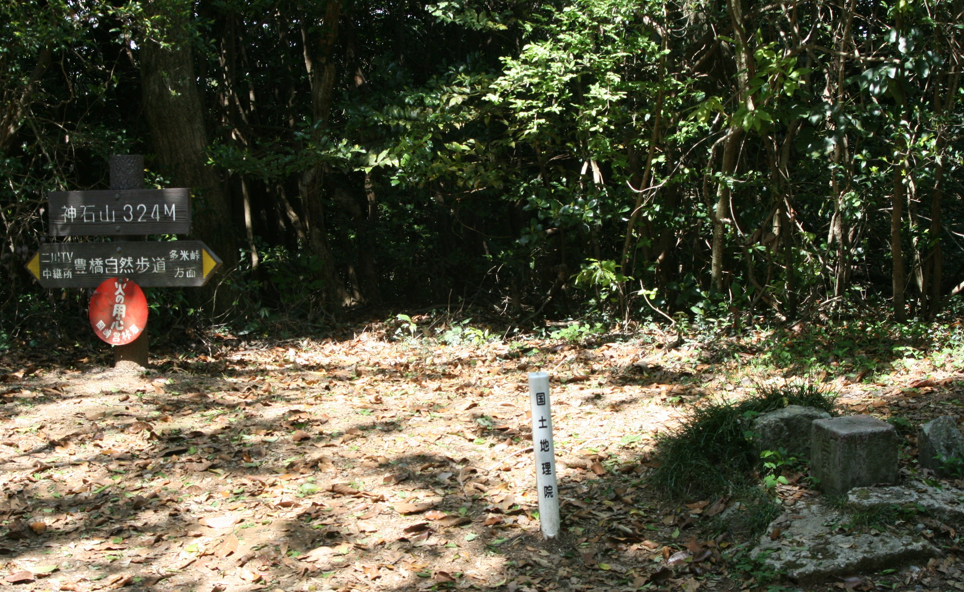 Mount_Kamiishi